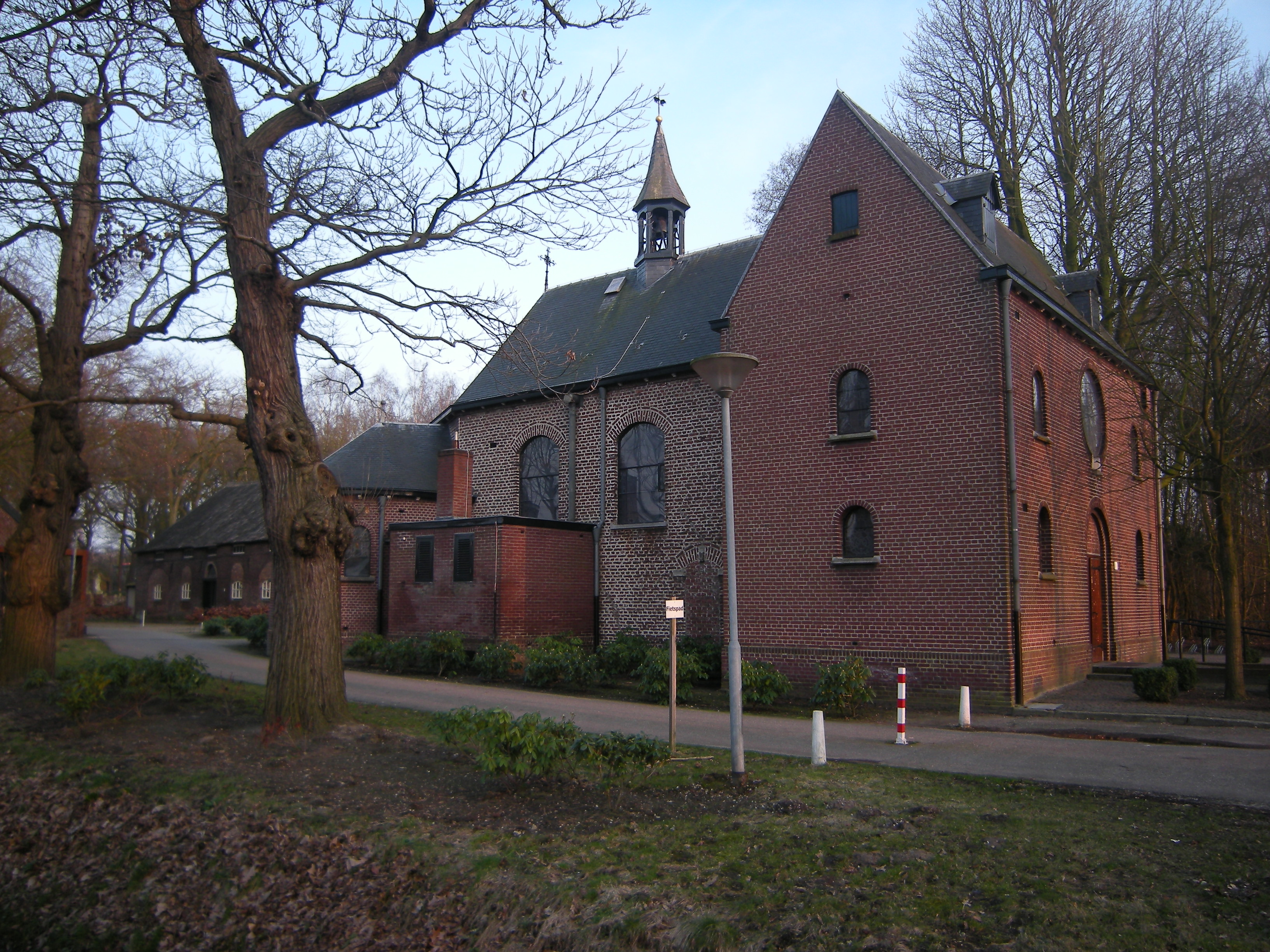 Genooi chappel Venlo